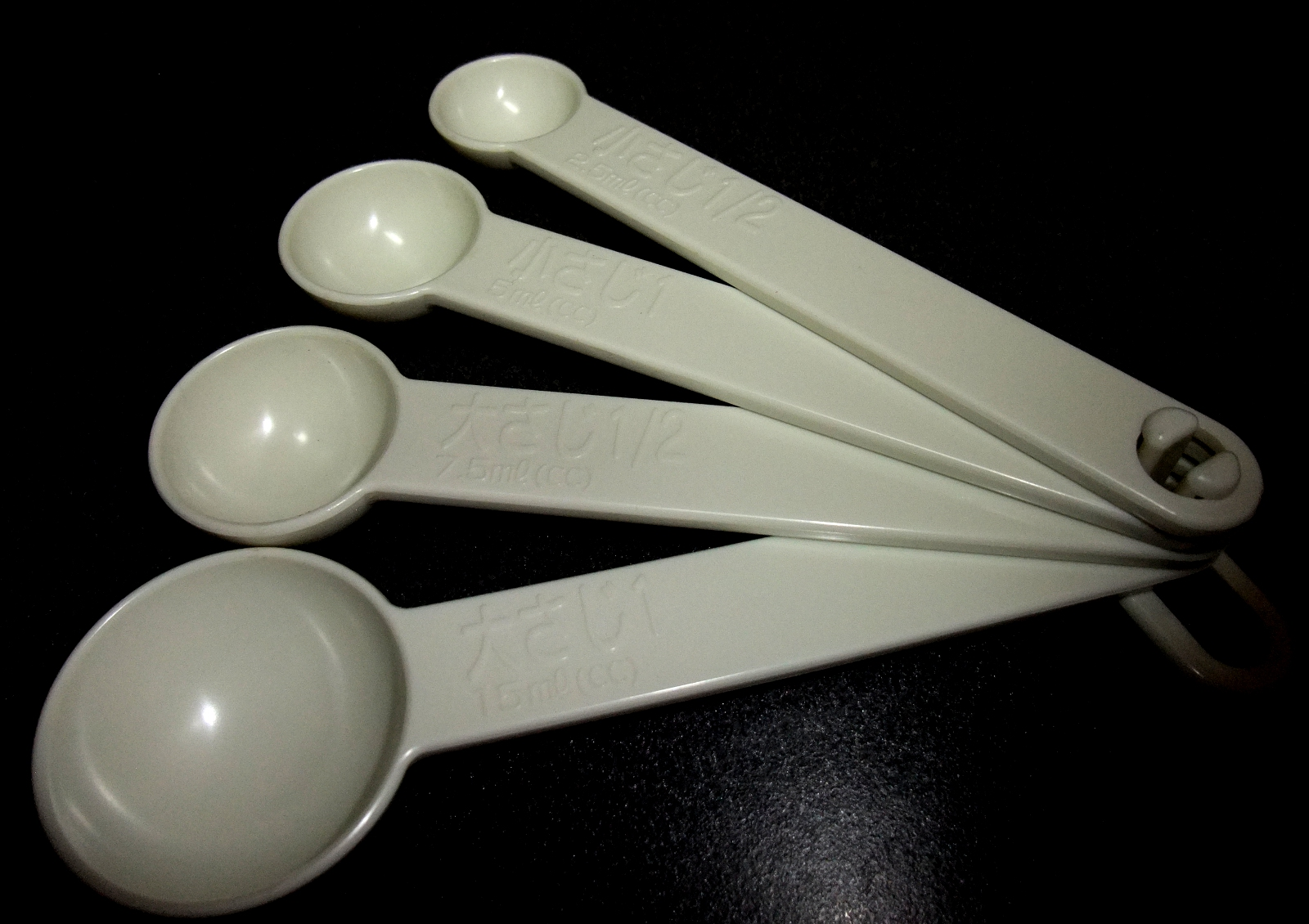 measuring spoon in Japan.